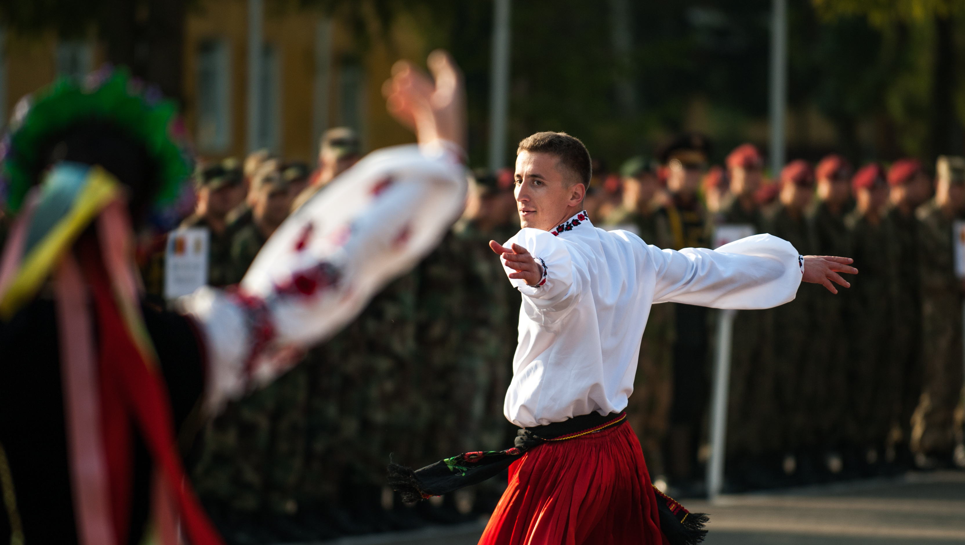 YAVORIV, Ukraine -- A Soldier from the Ukrainian military stands in formation during Exercise Rapid Trident’s opening ceremony here Sept. 15. Rapid Trident is an annual U.S. Army Europe conducted, Ukrainian led multinational exercise designed to enhance interoperability with allied and partner nations while promoting regional stability and security. (U.S. Army photo by Spc. Joshua Leonard)